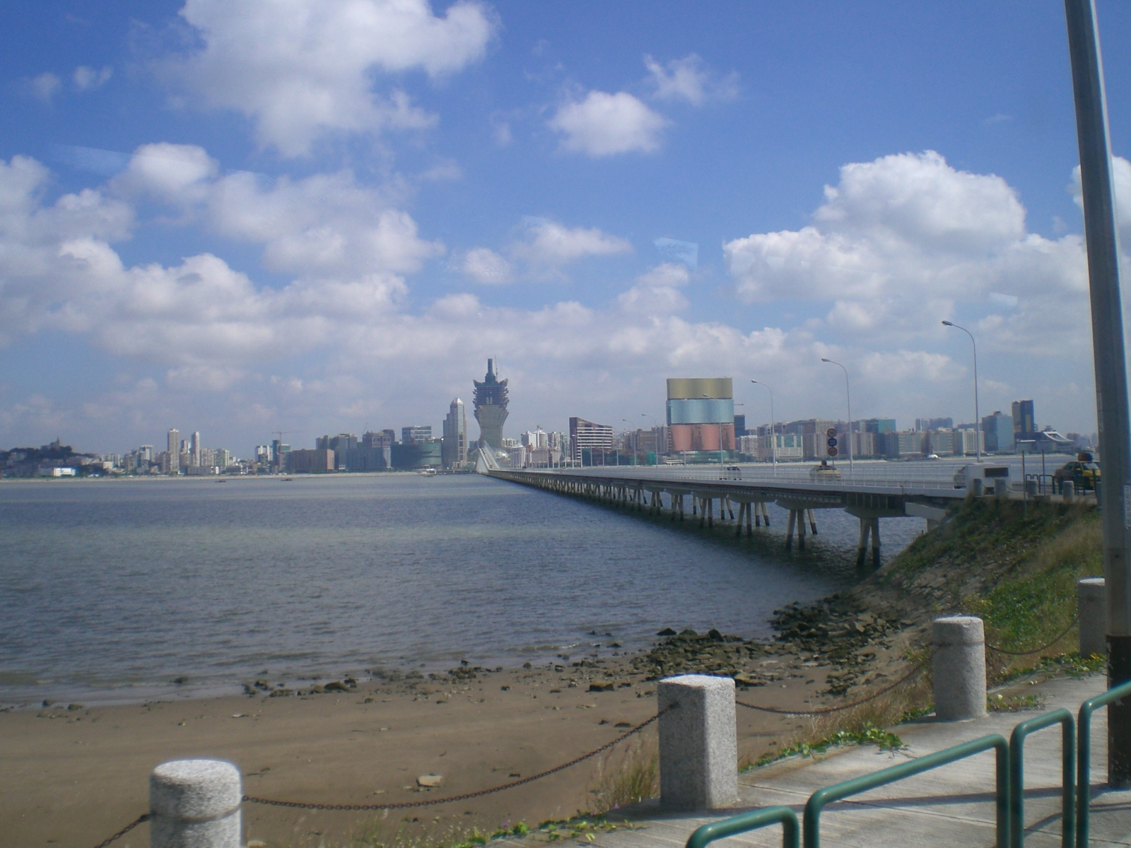 Macau-Taipa Bridge